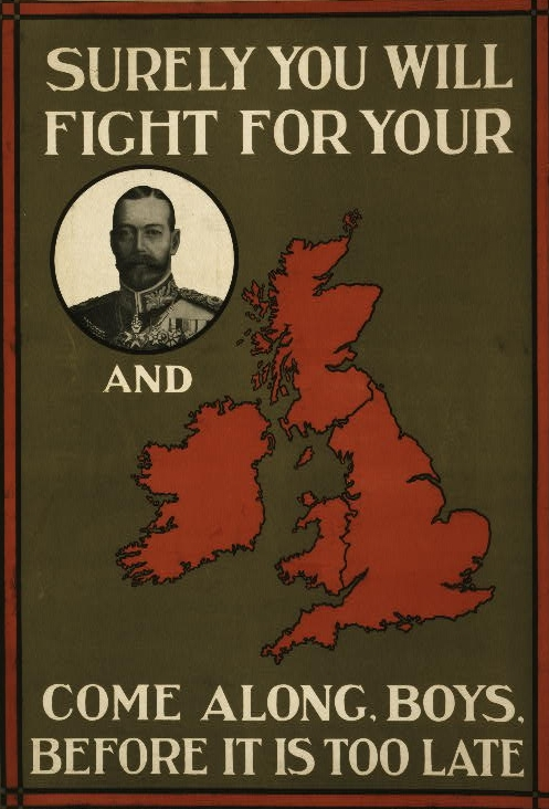 World War I recruitment poster. "Surely you will fight for your [portrait of King George V] and [map of Great Britain]. Come along, boys, before it is too late." Phrase is "King and country".